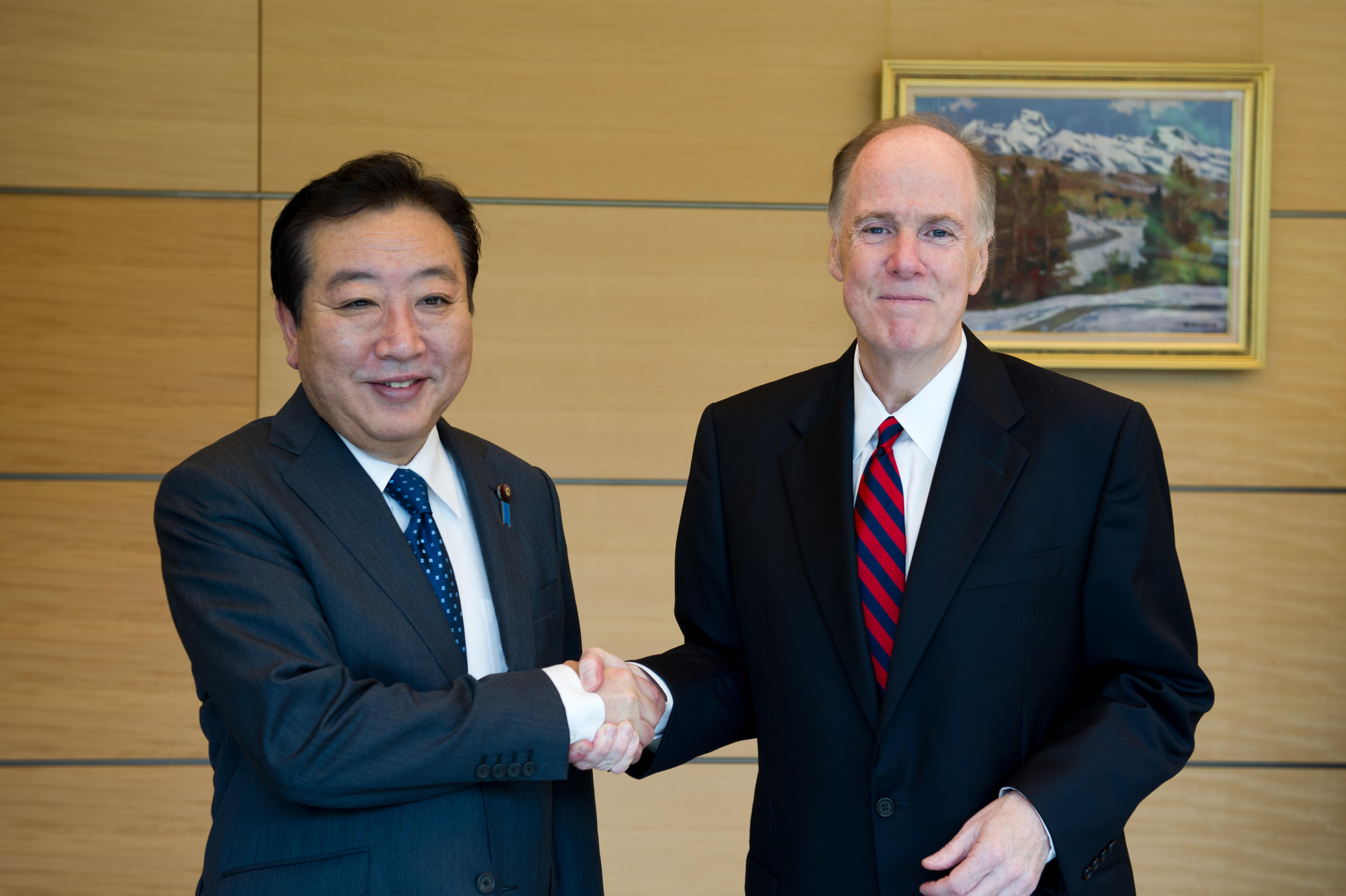 TOKYO, Japan (July 26, 2012) National Security Advisor Thomas Donilon meets Japan’s Prime Minister Yoshihiko Noda [State Department photo by William Ng/Public Domain]